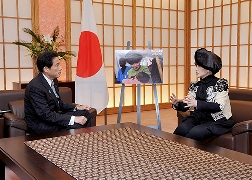 Tetsuko Kuroyanagi, Goodwill Ambassador of the United Nations Childrens' Fund, talked with Fumio Kishida, Minister for Foreign Affairs, at the Ministry of Foreign Affairs in Tōkyō Metropolis on September 12, 2013.